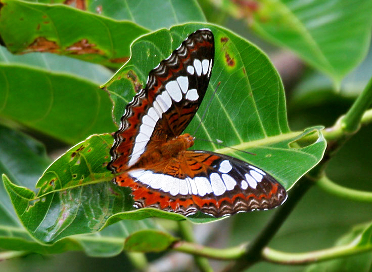 Commander Moduza procris. On a Neolamarckia cadamba (Kadamb) leaf at Bracebridge, in Kolkata, West Bengal, India.